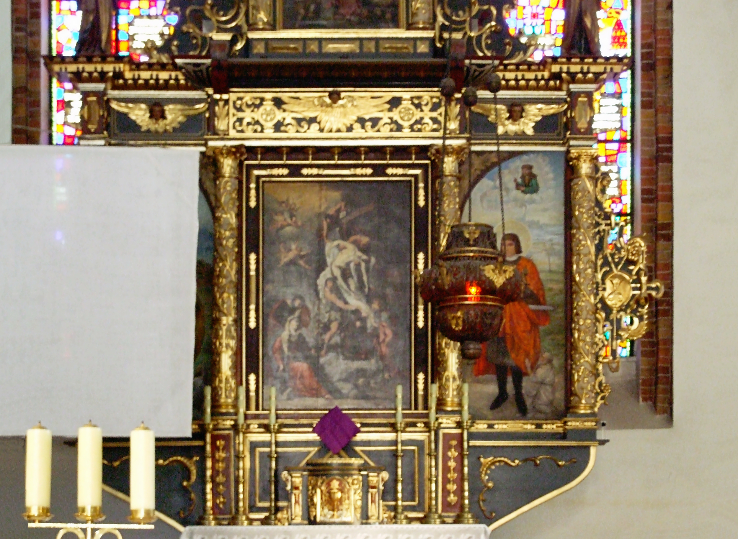 Collegiate in Szamotuły